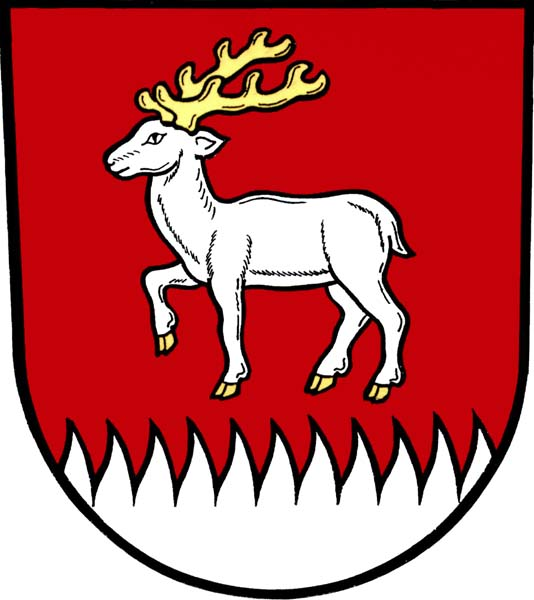 Municipal coat of arms of Kyjovice village, Opava District, Czech Republic.